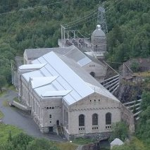 Vemork Hydroelectric Plant as it looks today. The picture shows the building lying behind the Norsk Hydro hydrogen production plant (now demolished). In the (now) demolished building, a Special Operations Executive (SOE) Team in 1941 (Operation GUNNERSIDE) blew up heavy water production equipment in order to sabotage the German efforts towards an Atomic Bomb.